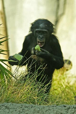 Baby Bonobo Eating